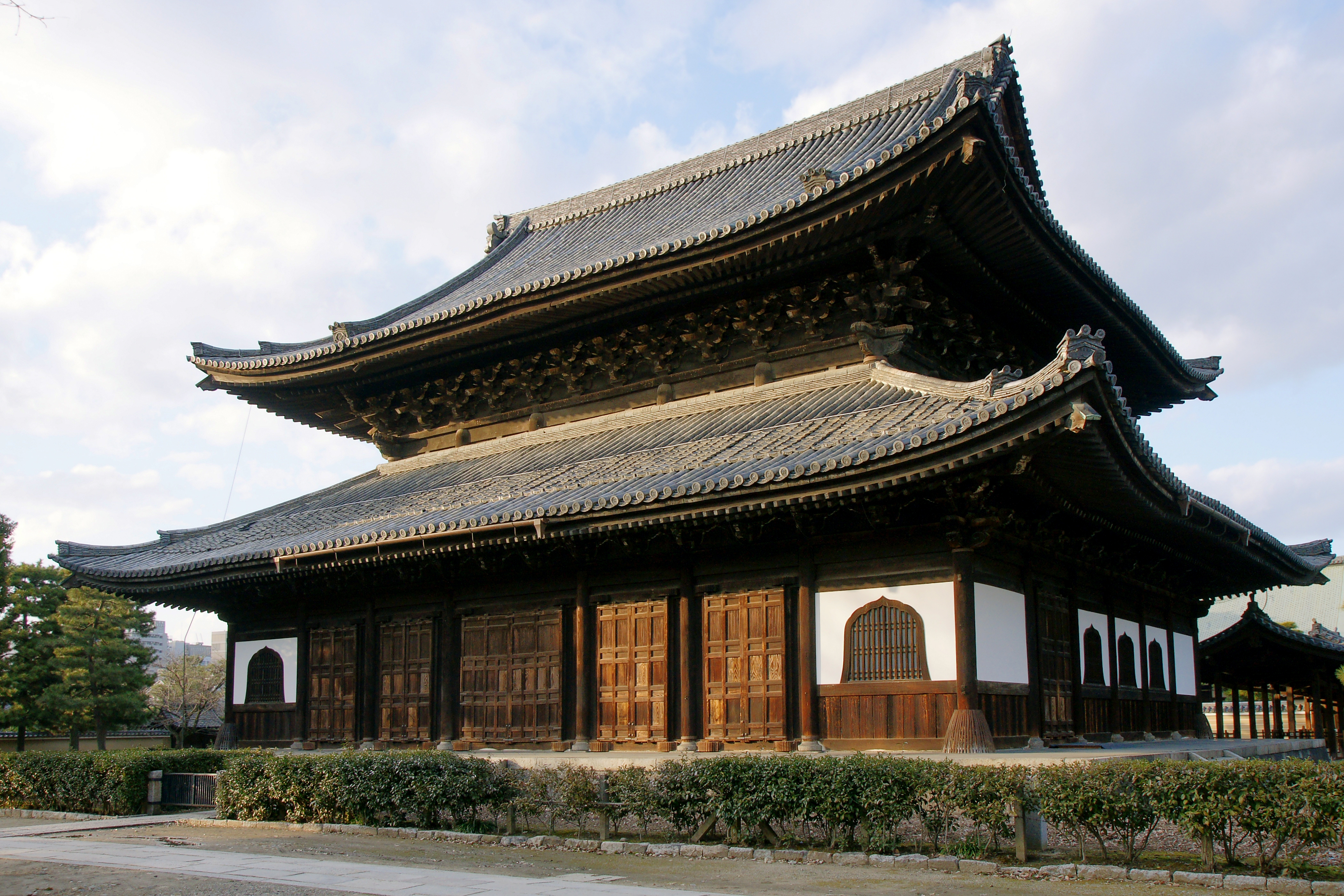 At Kennin-ji in Higashiyama-ku, Kyoto, Kyoto prefecture, Japan